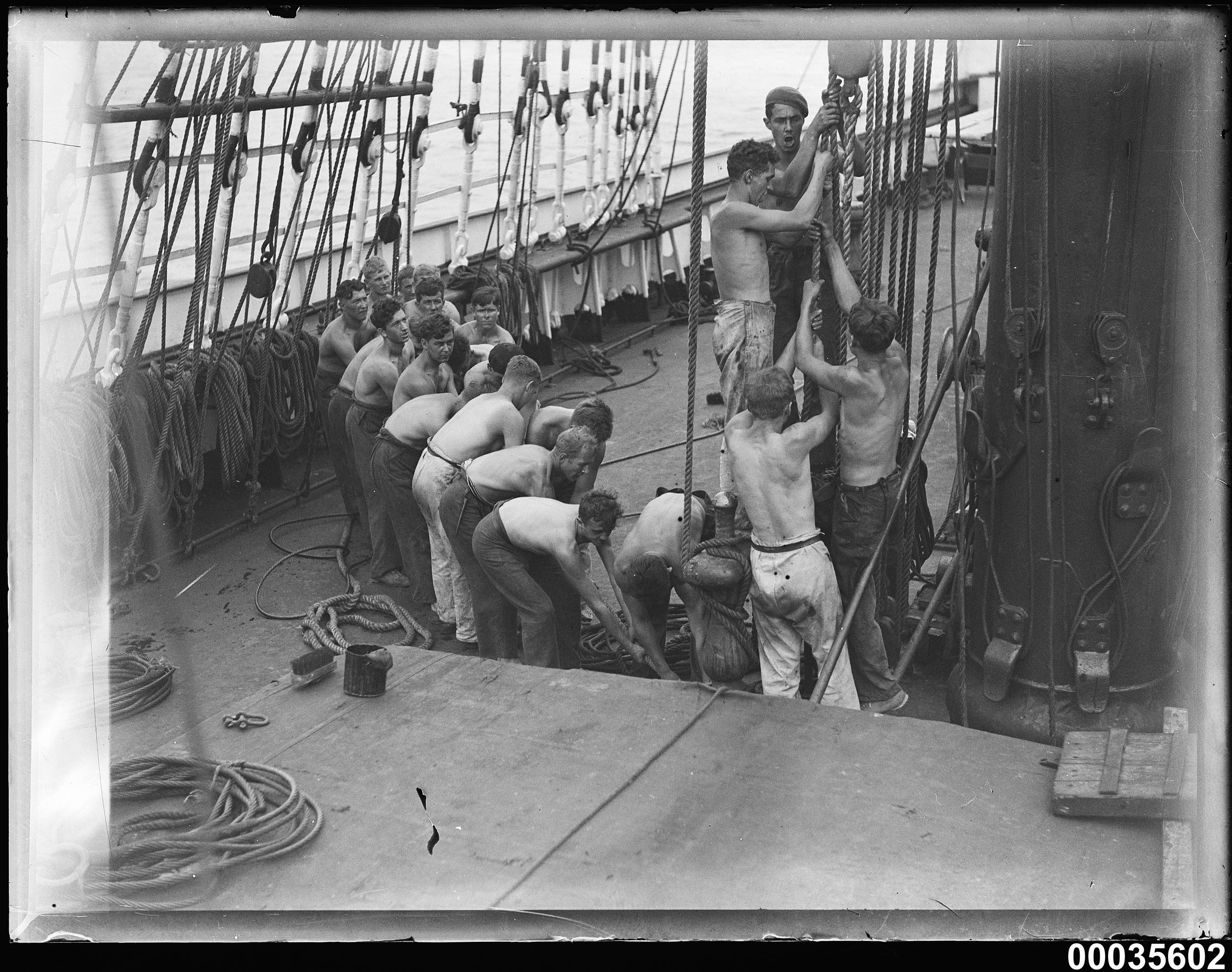 This image depicts crew of the four-masted steel barque MAGDALENE VINNEN pulling on rope near one of the ship's masts. The vessel sailed into Sydney Harbour on 27 February 1933, under the command of Captain Lorenz Peters. The barque was loaded with almost 16,000 bales of wool, the fourth largest shipment to have left Sydney, before it sailed the record-breaking 82-day voyage for Falmouth, England. MAGDALENE VINNEN visited Australia again in 1935, with a cargo of wheat, lifted from Port Broughton in South Australia. This photo is part of the Australian National Maritime Museum’s Samuel J. Hood Studio collection. Sam Hood (1872-1953) was a Sydney photographer with a passion for ships. His 60-year career spanned the romantic age of sail and two world wars. The photos in the collection were taken mainly in Sydney and Newcastle during the first half of the 20th century. The ANMM undertakes research and accepts public comments that enhance the information we hold about images in our collection. This record has been updated accordingly. Photographer: Samuel J. Hood Studio Collection Object no. 00035602